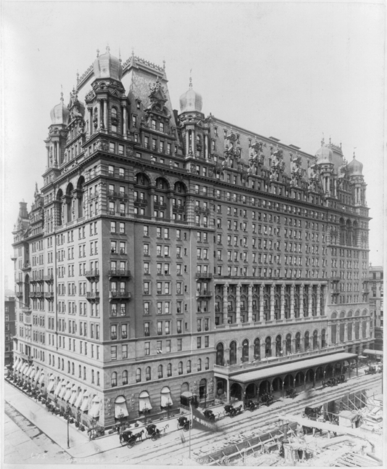 Title: Waldorf Astoria, New York City Abstract/medium: 1 photographic print.